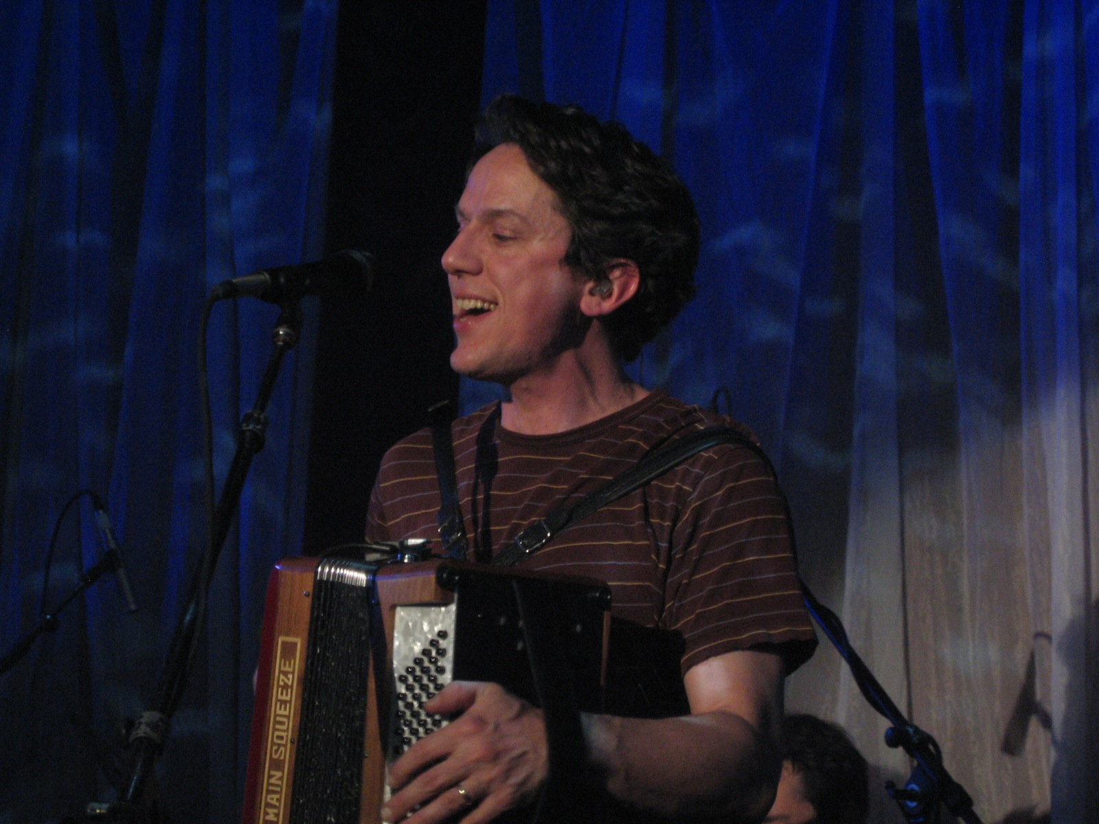 John Linnell performing at the New Year's Eve Concert at Northsix